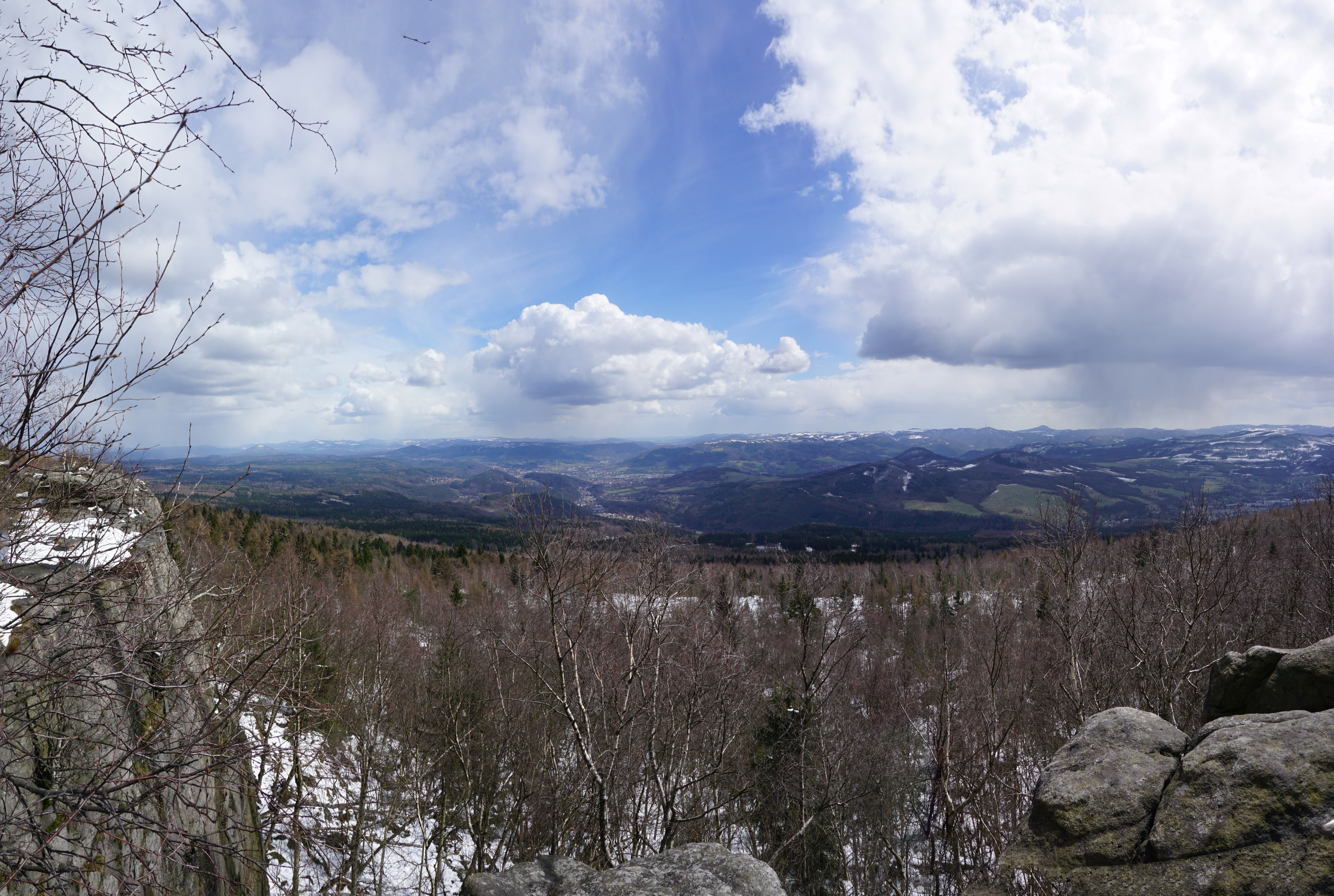 View from Děčínský Sněžník